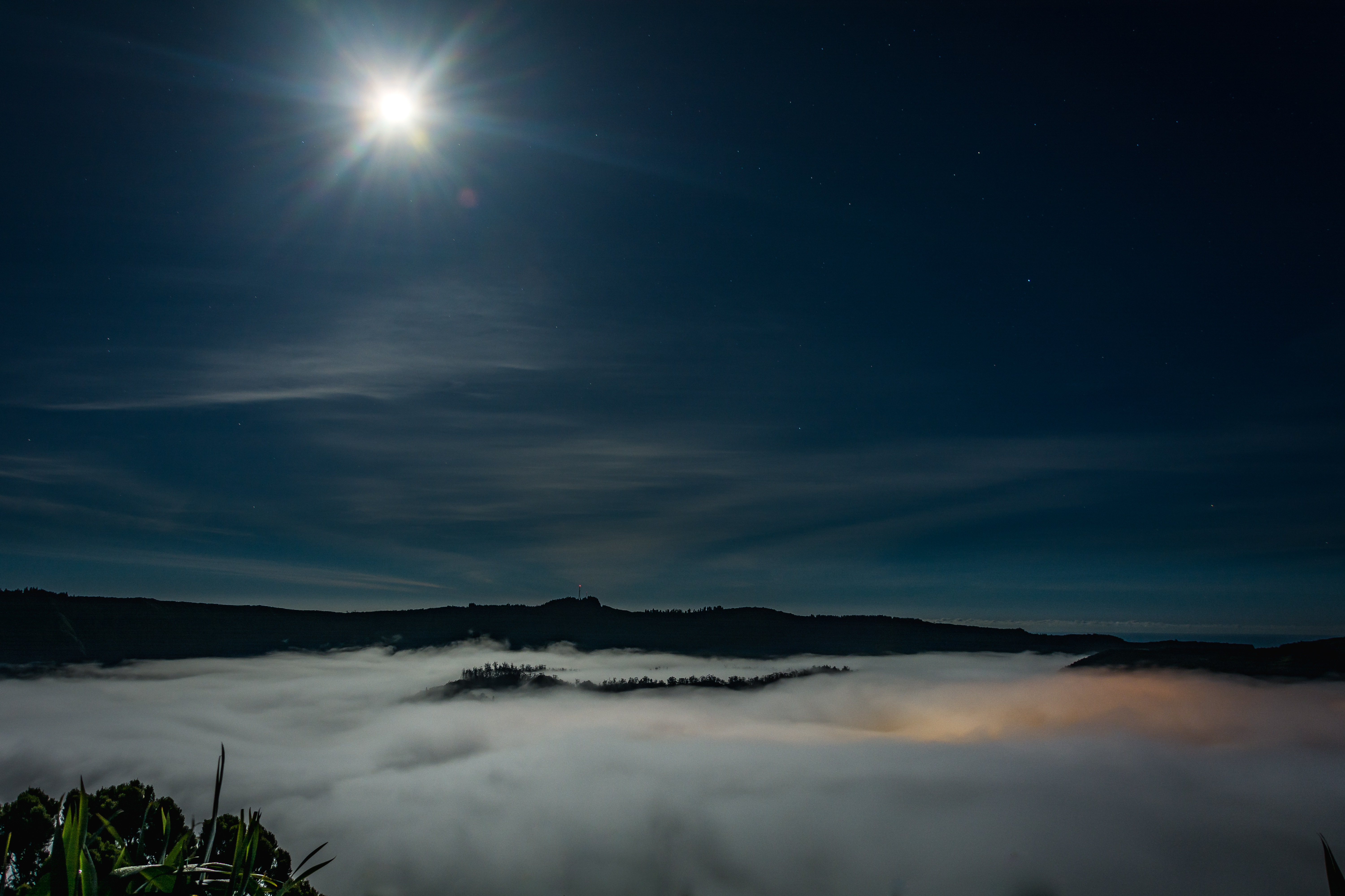 Azores, Sao Miguel, Sete Cidades town under fog